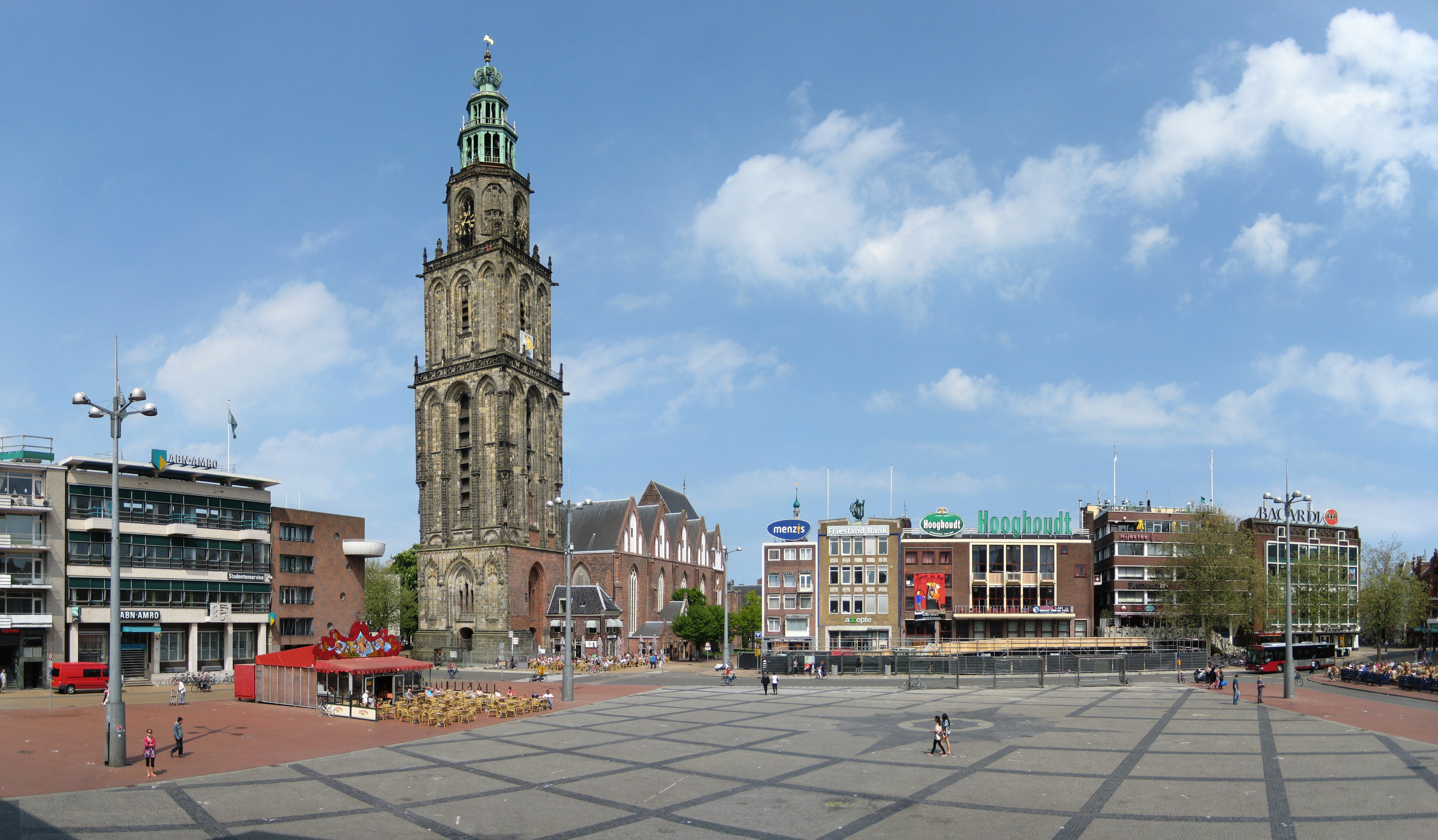 The Grote Markt in the Dutch city of Groningen, prominently featuring the Martinitoren.